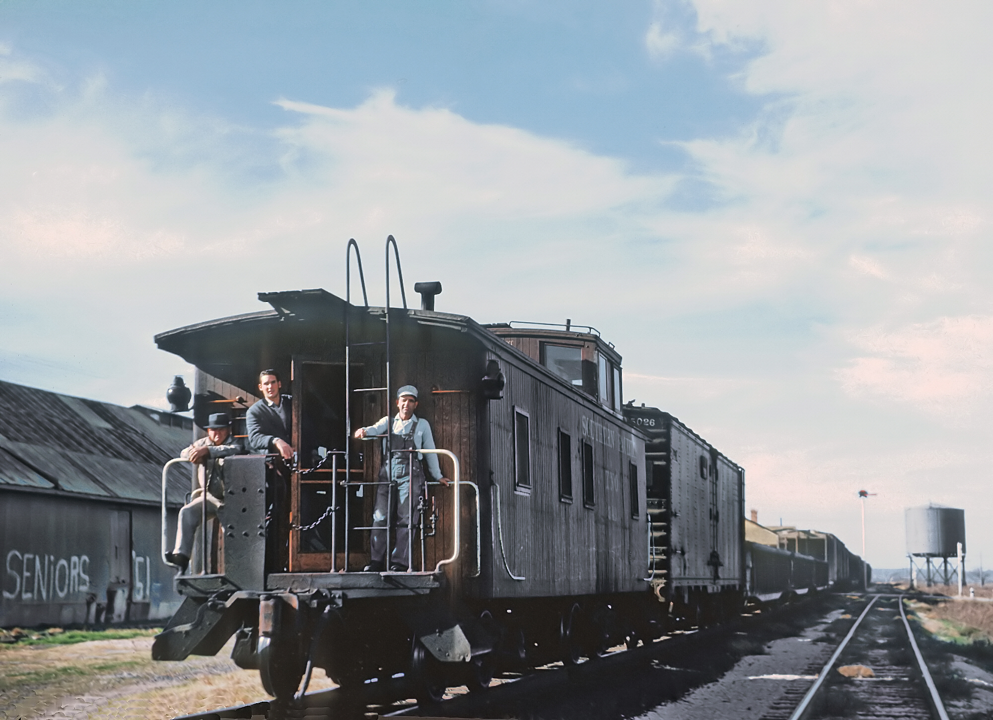 Photo by Roger Puta